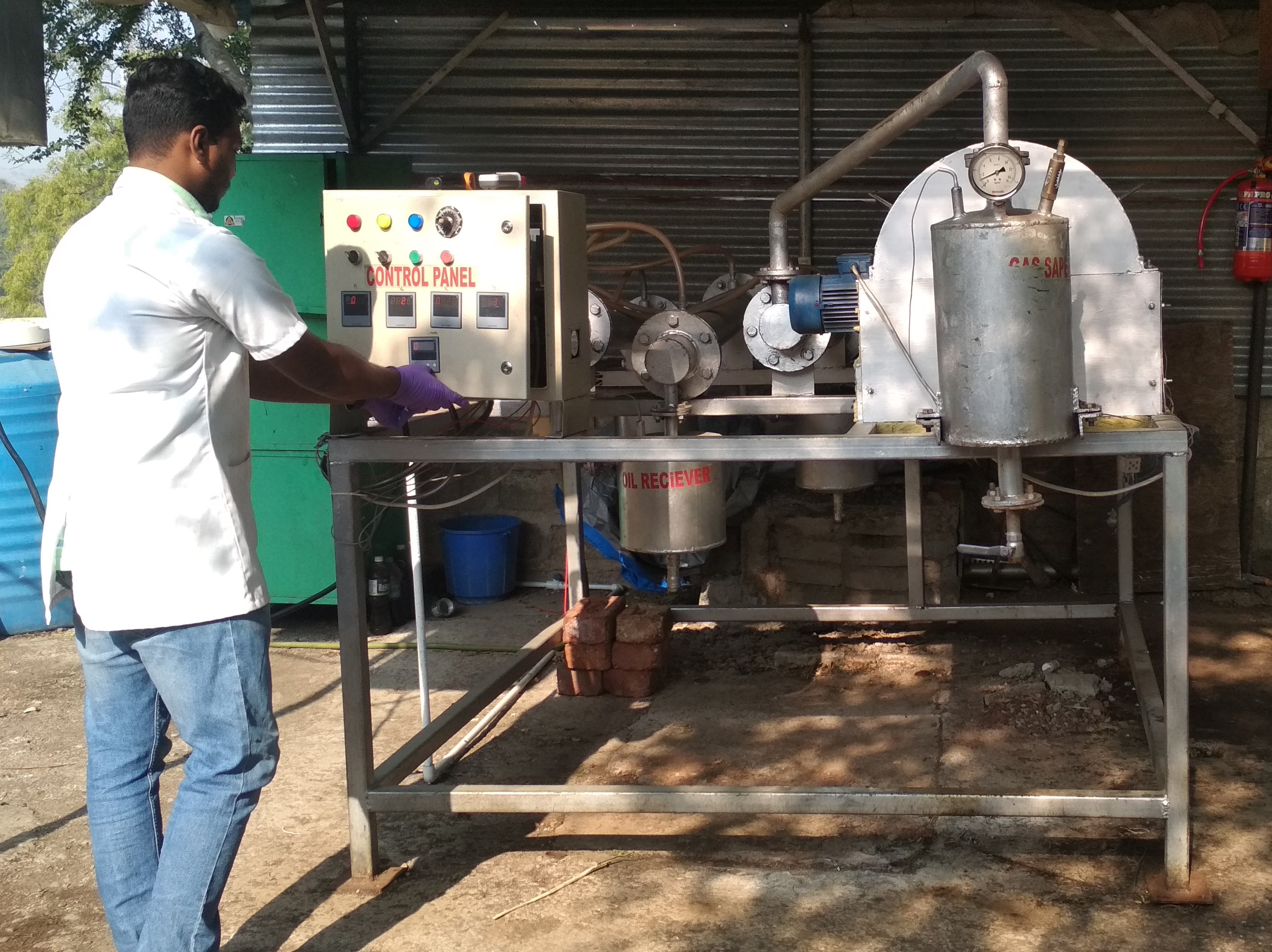 Pyrolysis machine in process